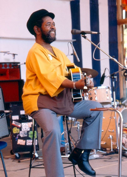 Image (photograph) taken by Official Nambassa Photographer and uploaded by User:Mombas, Nambassa dot com Terms of Use: 1/ All users of this image are required to attribute this work to "Nambassa Trust and Peter Terry" and the URL: " " is to accompany all use. 2/ Attribution. You must attribute the work in the manner specified by the author or licensor. 3/ For any reuse or distribution, you must make clear to others the license terms of this work. Statement by Nambassa Trust and Peter Terry